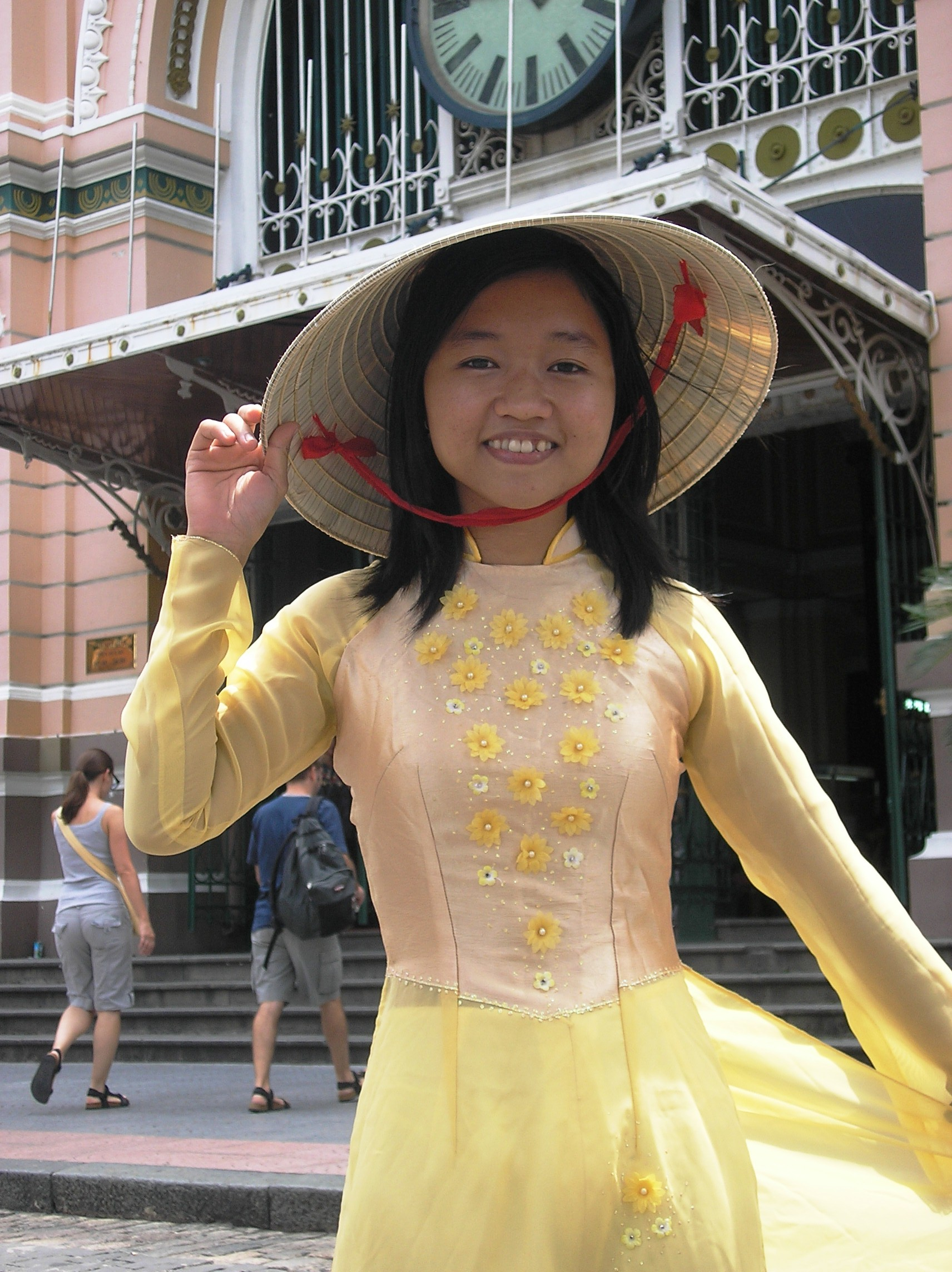 A woman wears an aodai (Vietnamese dress) and a non la (leaf hat) while standing in front of the Saigon Central Post Office a landmark in Hochiminh City, Vietnam.